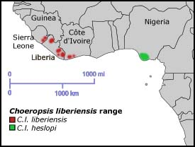 A map of the range of the Pygmy Hippopotamus